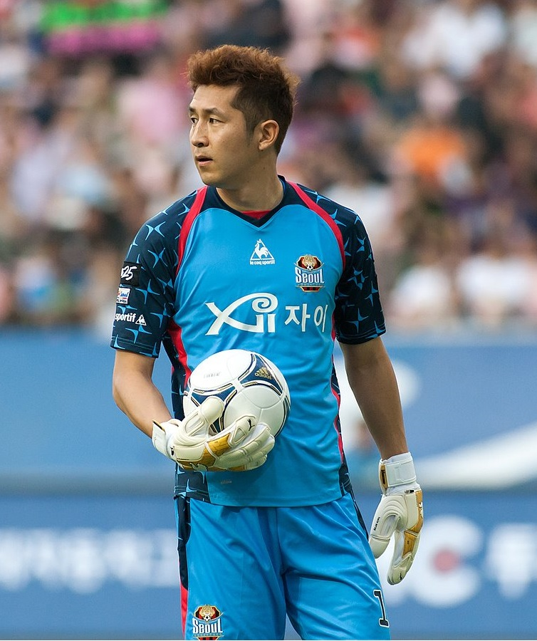 Kim Yong-Dae playing for FC Seoul in a 2012 K-League match against Jeonbuk Hyundai in South Korea.